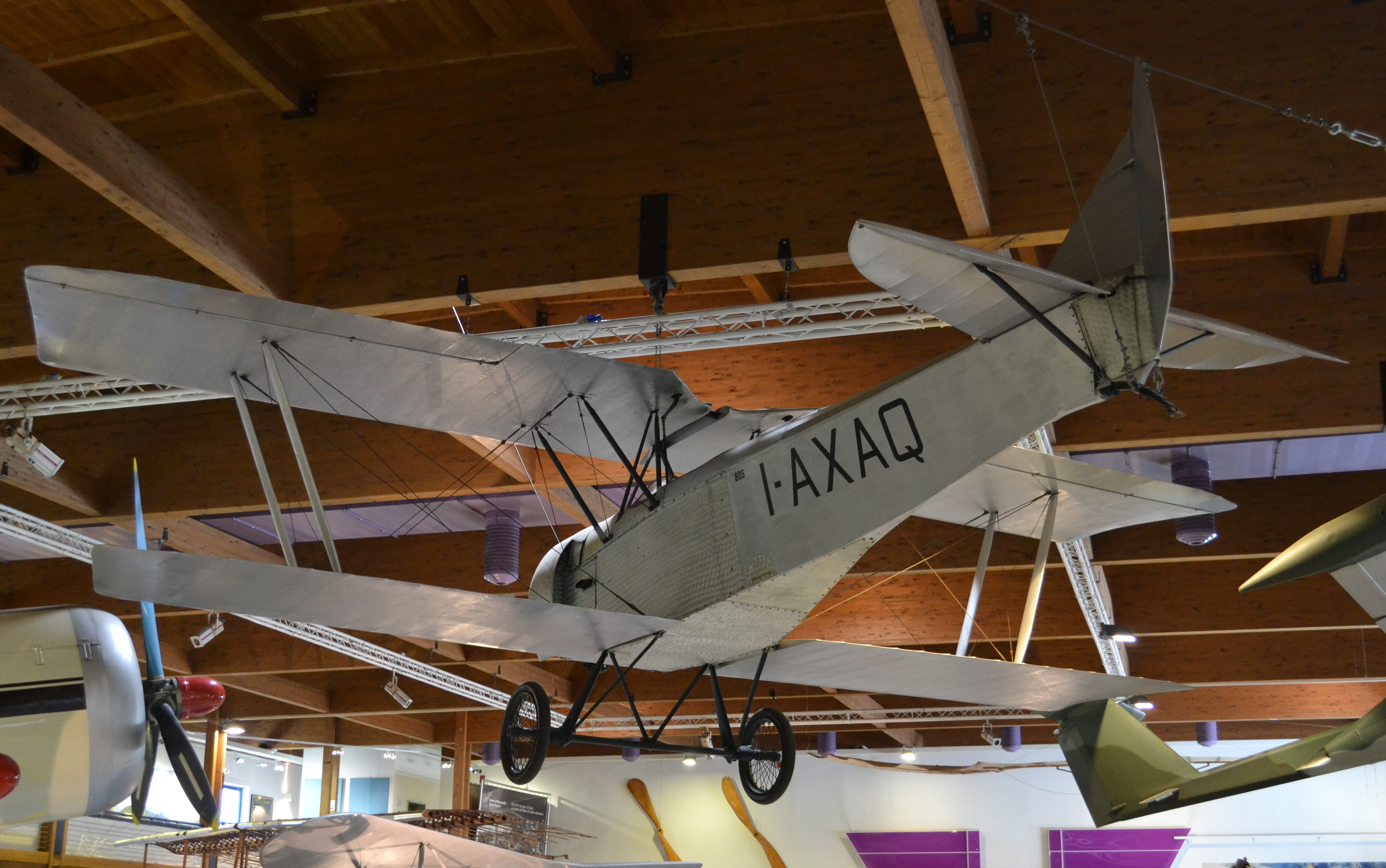 Lower-tail view of Italian 1920s aerobatic training biplane Gabardini G.51bis in the Gianni Caproni Museum of Aeronautics (I-AXAQ).